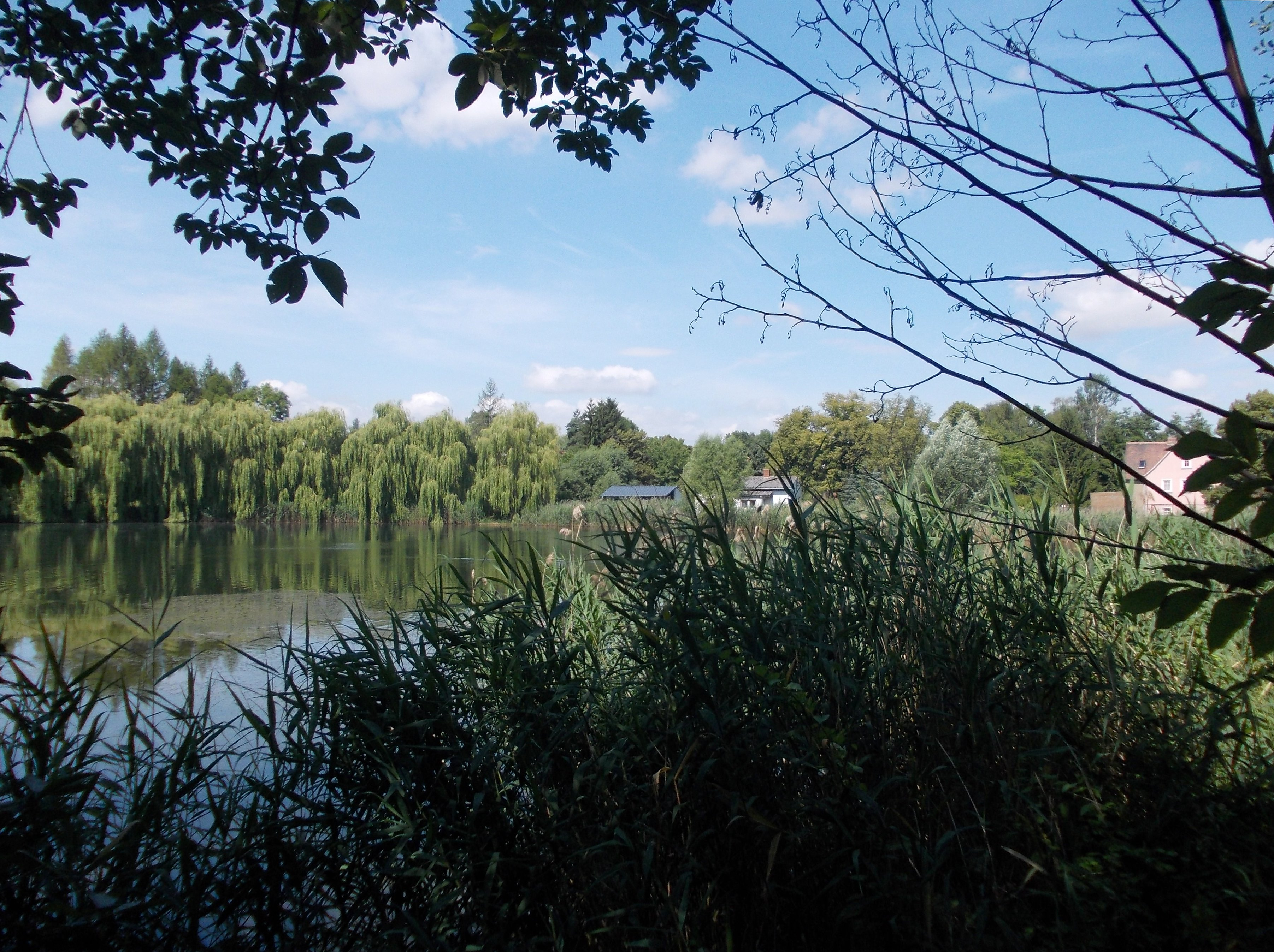 Pond in Osterfeld (district: Burgenlandkreis, Saxony-Anhalt)